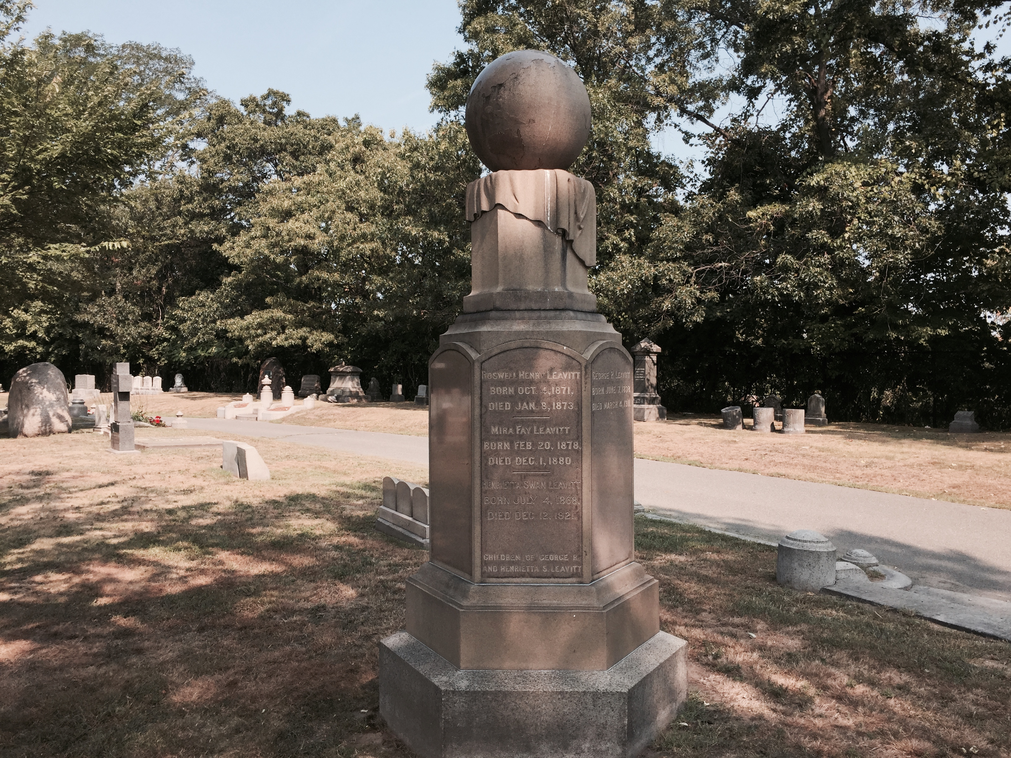 The Leavitt Family monument on Prospect Street in Cambridge Cemetery, Cambridge, Massachusetts. Side shown includes inscription at bottom for noted American astronomer Henrietta Swan Leavitt, July 4, 1868 - December 12, 1921.